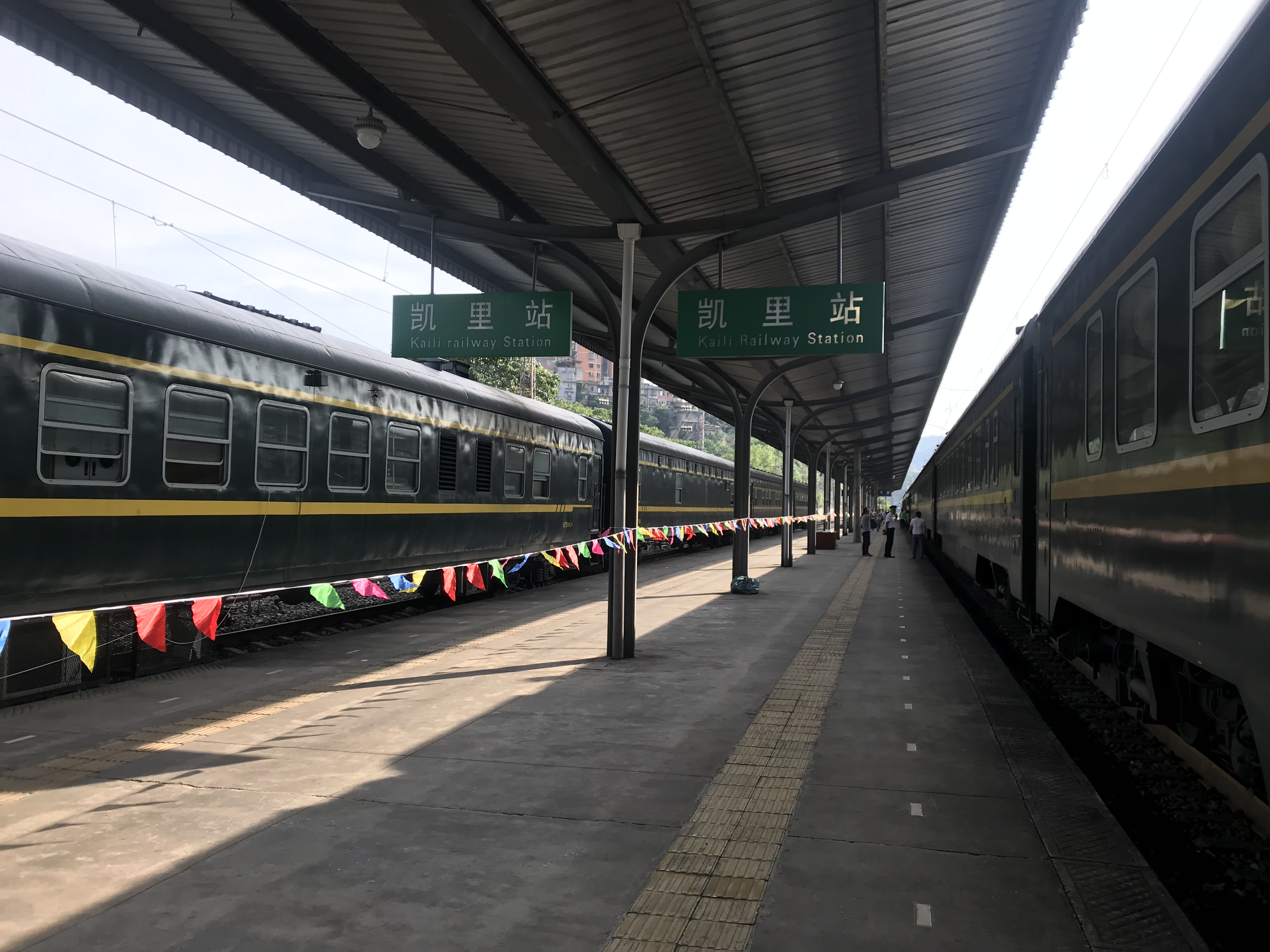 201908 Platform 2,3 of Kaili Station